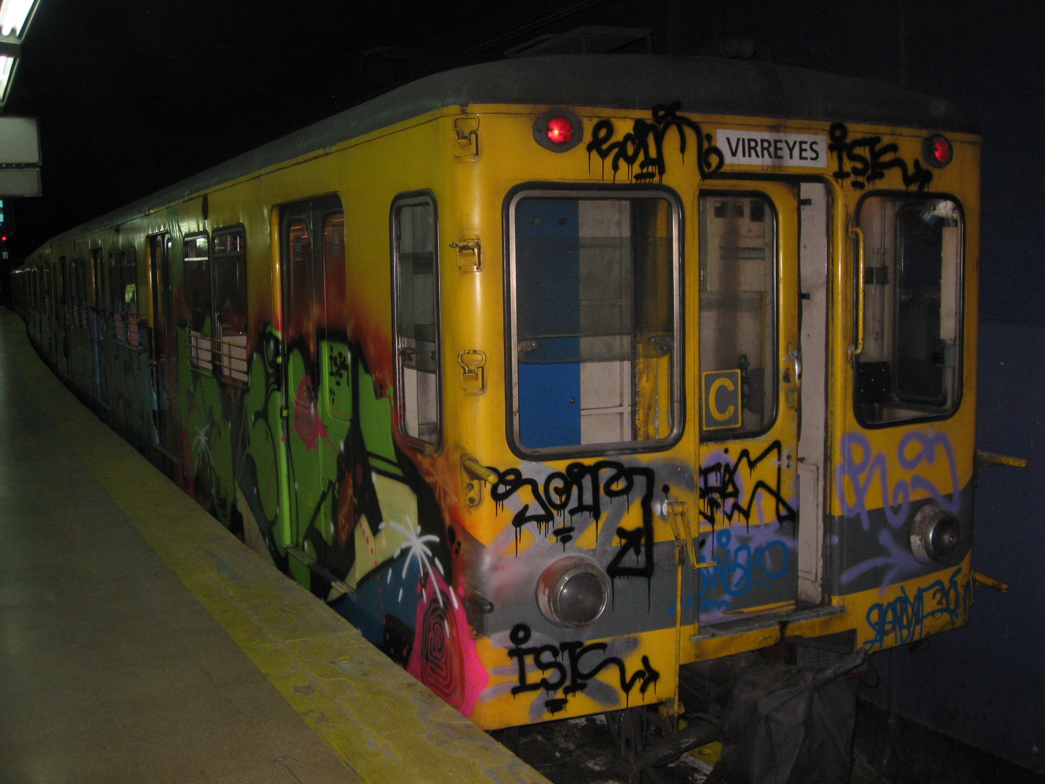 Fleets in subway line E in Buenos Aires.